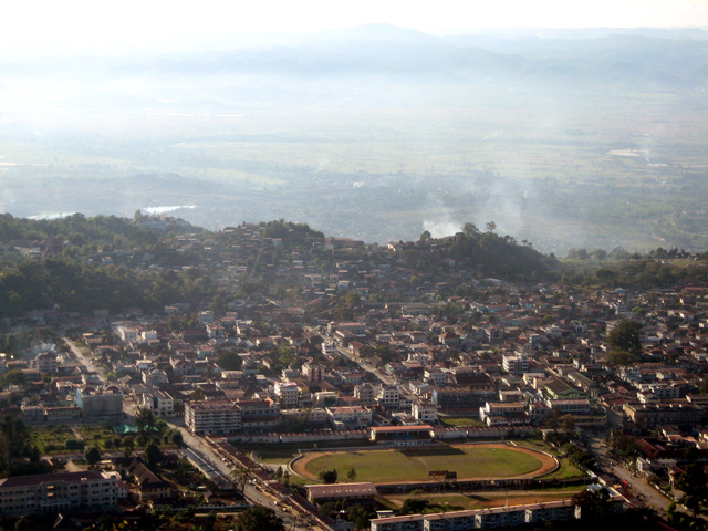 A view of Taunggyi